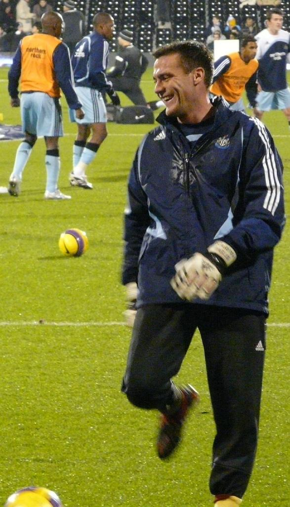 English football (soccer) player Steve Harper (footballer)